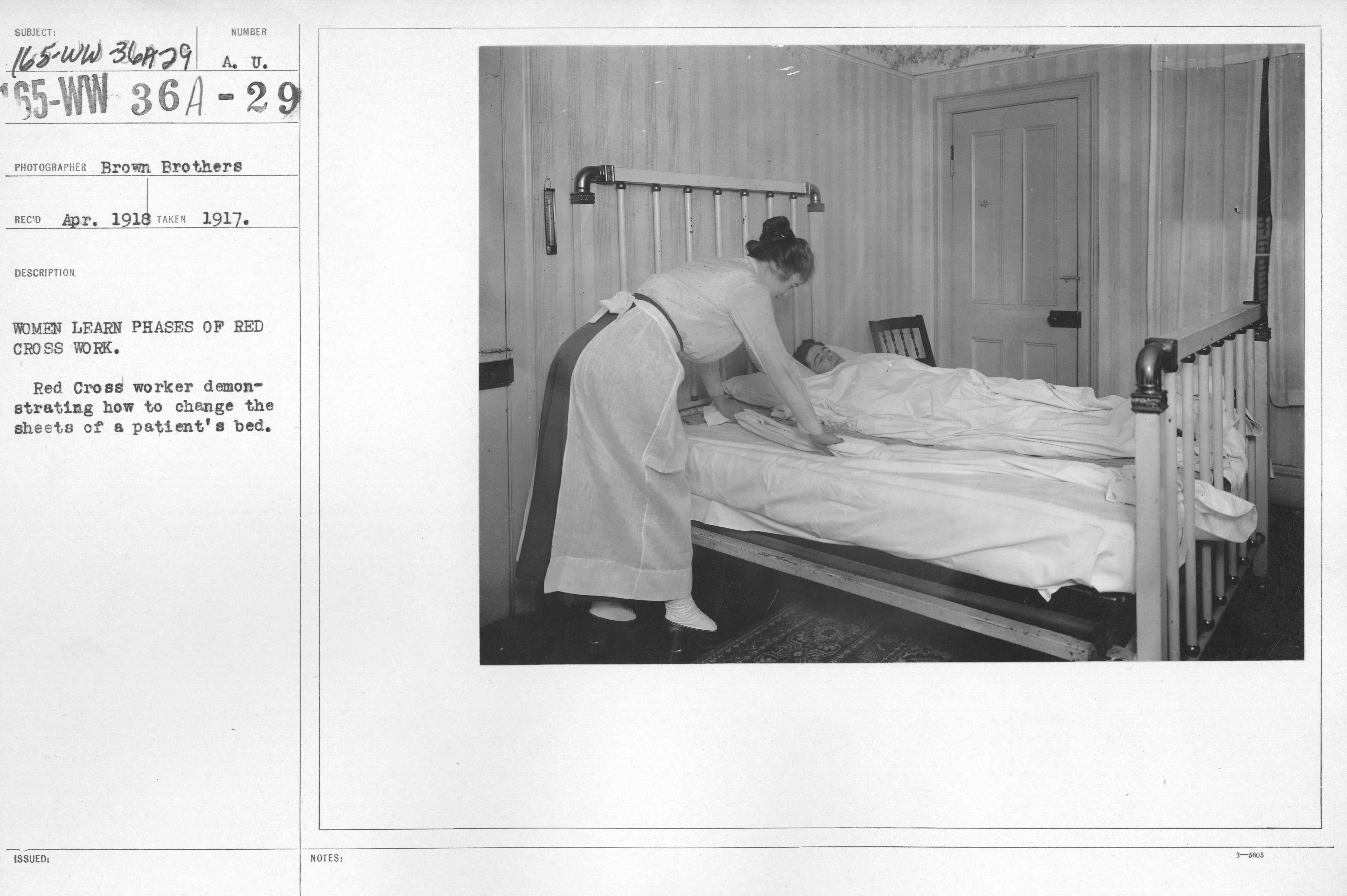 Scope and content: Date Taken: 1917 Photographer: Brown Brothers